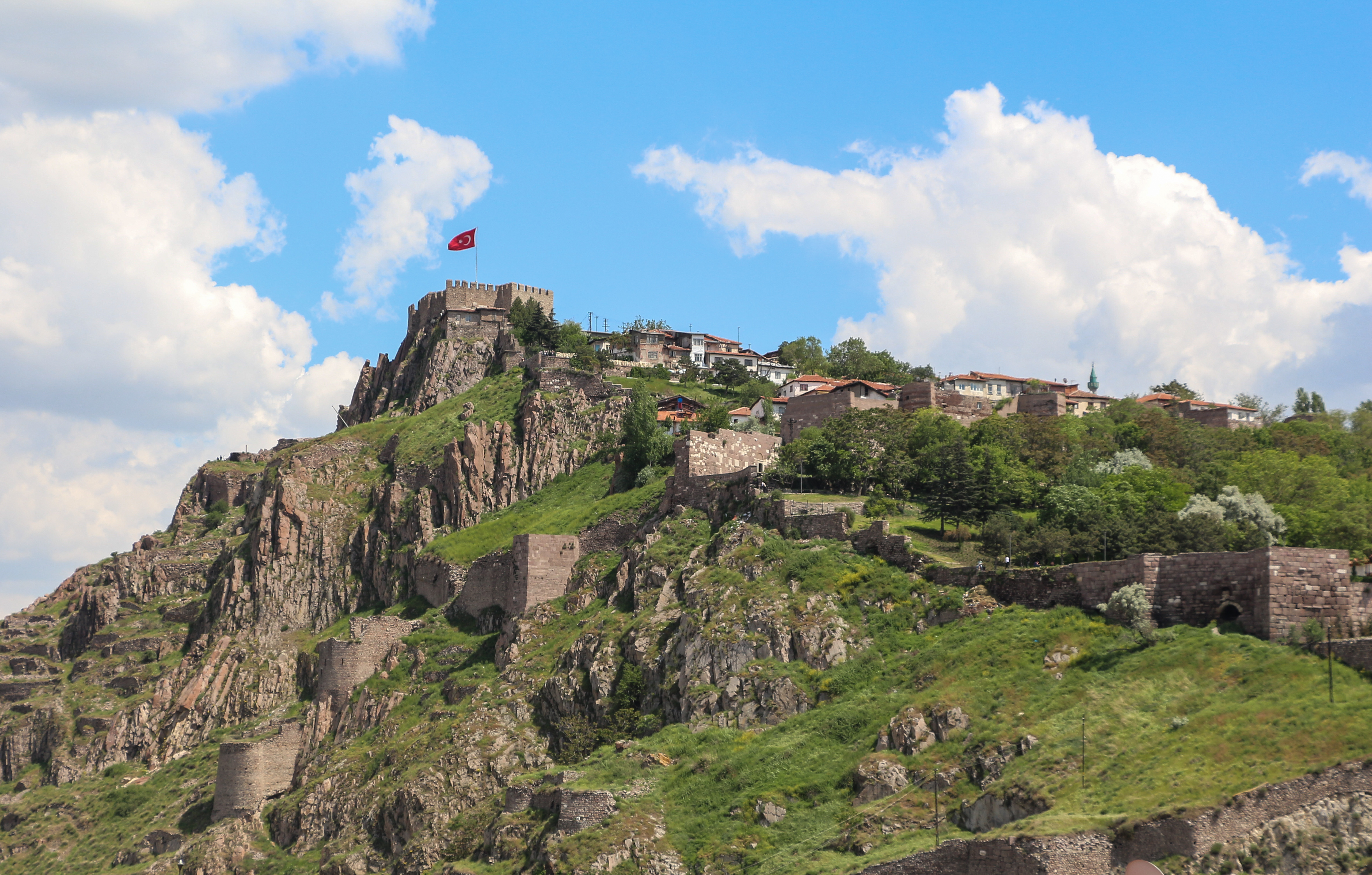 Ankara Castle seen from Haci Bayram Mosque, Ankara